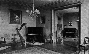 St. Clara Academy section of the Music Department